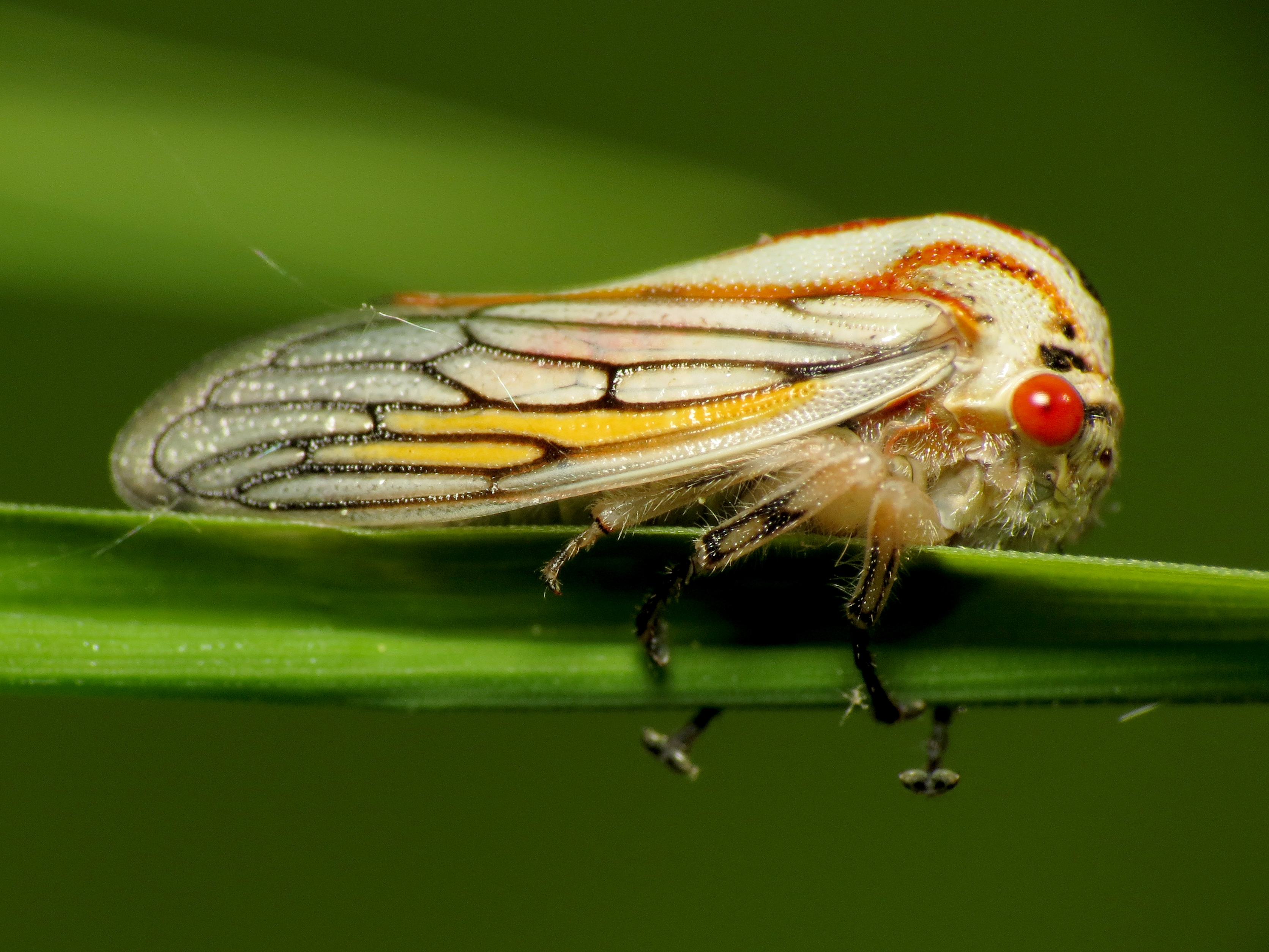 Platycotis vittata. Huntley Meadows, Fairfax County, Virginia, USA.